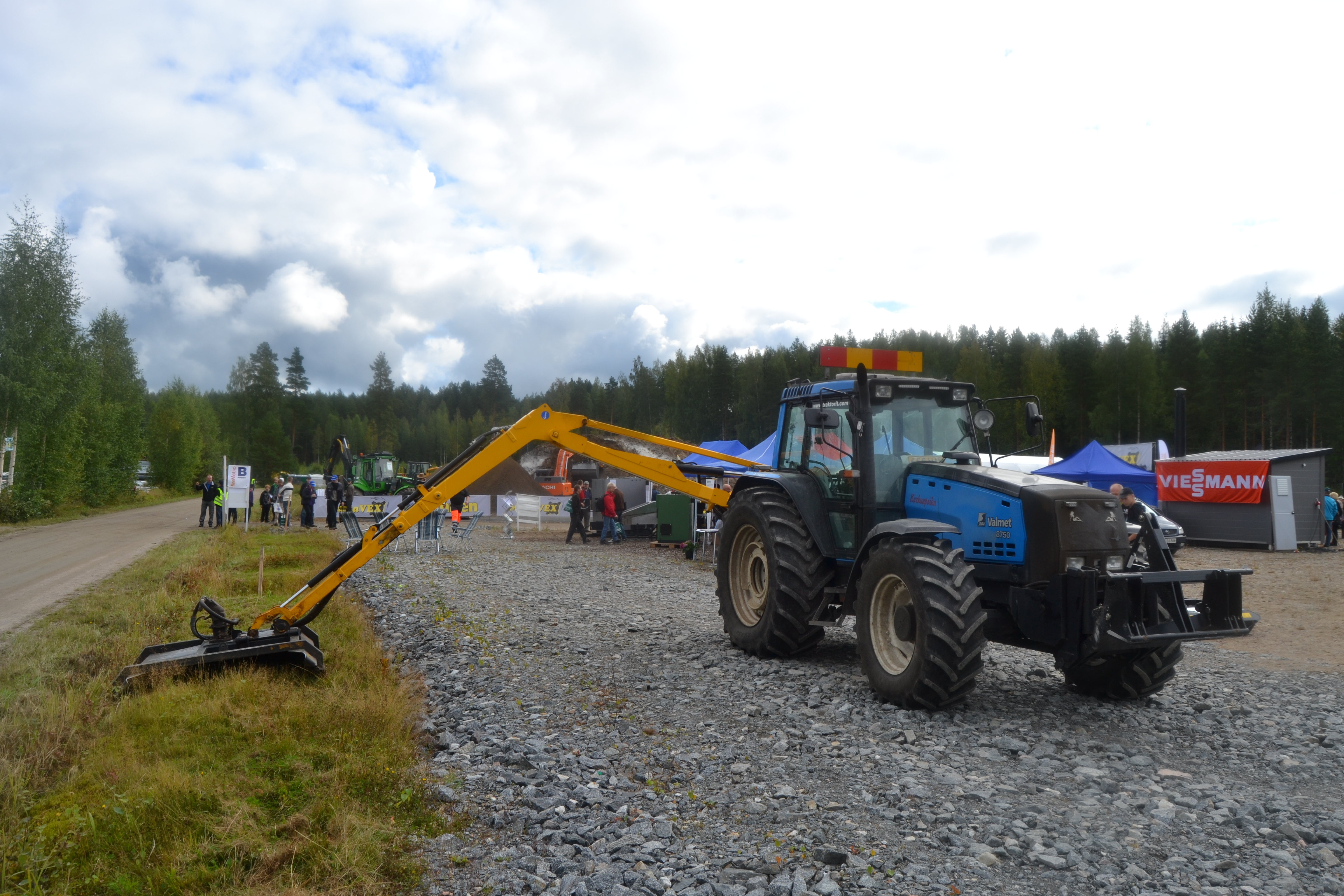 Valmet 8750 tractor with a mower in Jämsä, Finland